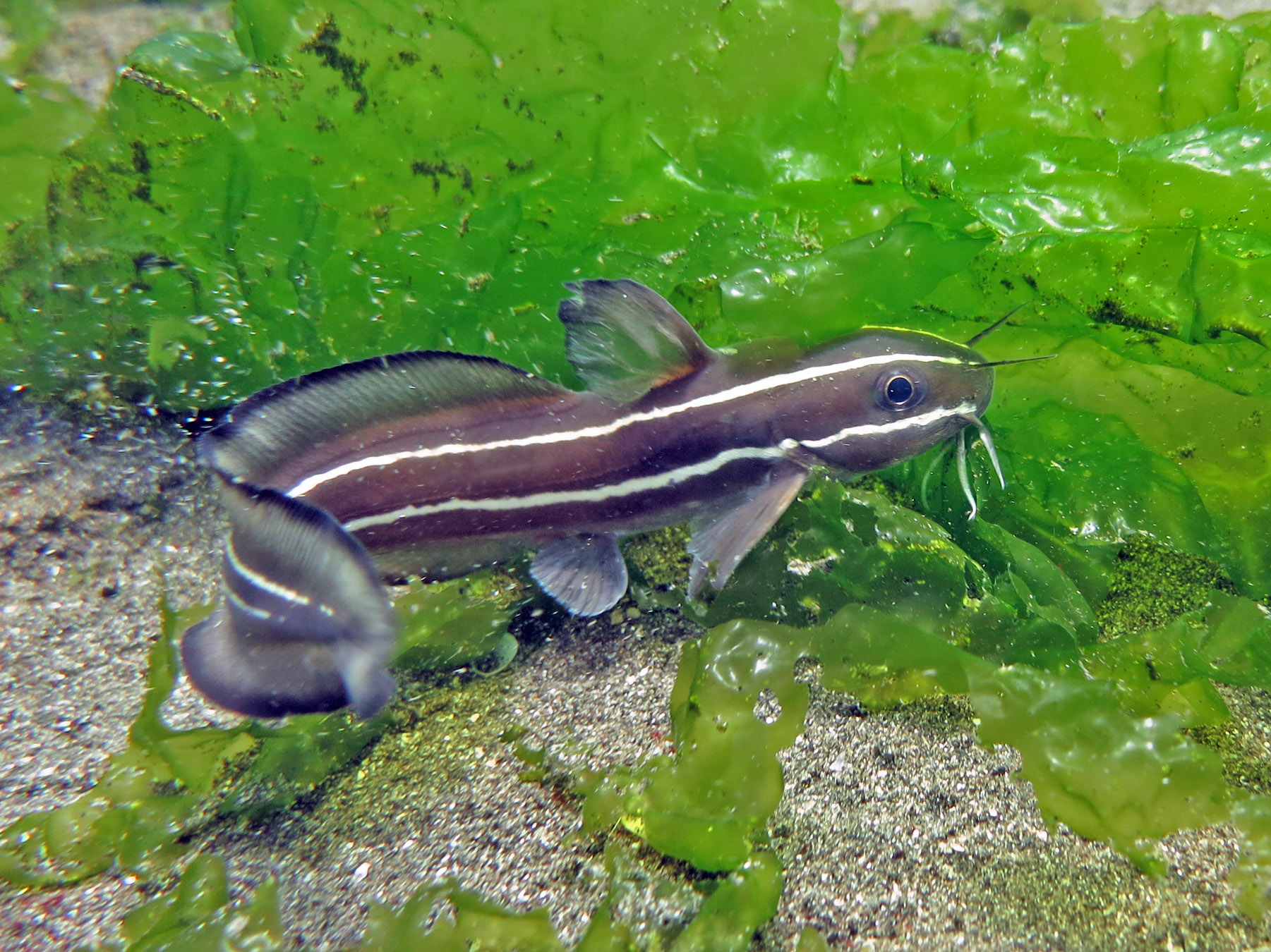 2015 09 Bali 82 catfish with stripes